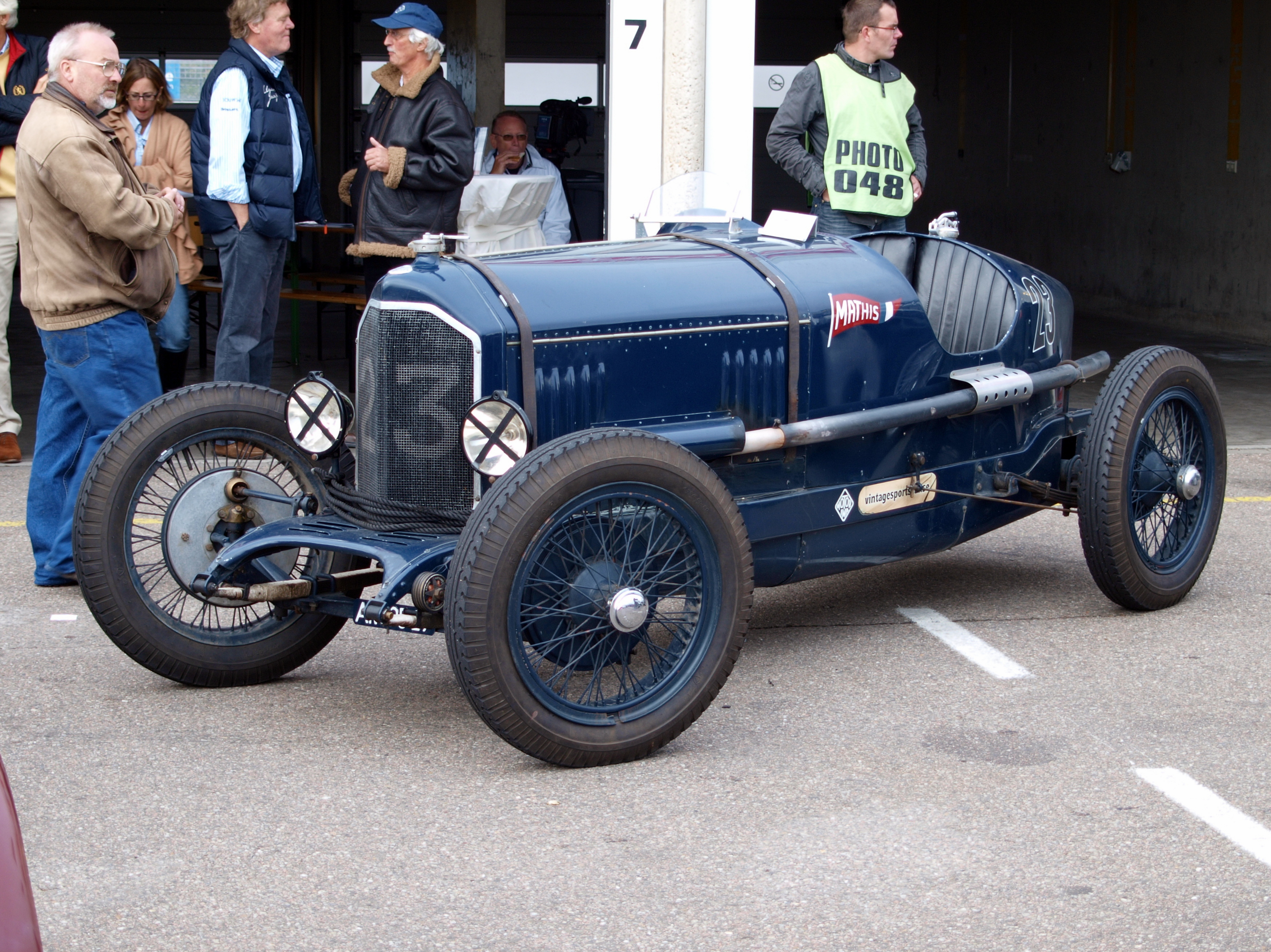 Photographed at the Nationaal Oldtimer Festival Zandvoort 2010, The Netherlands.